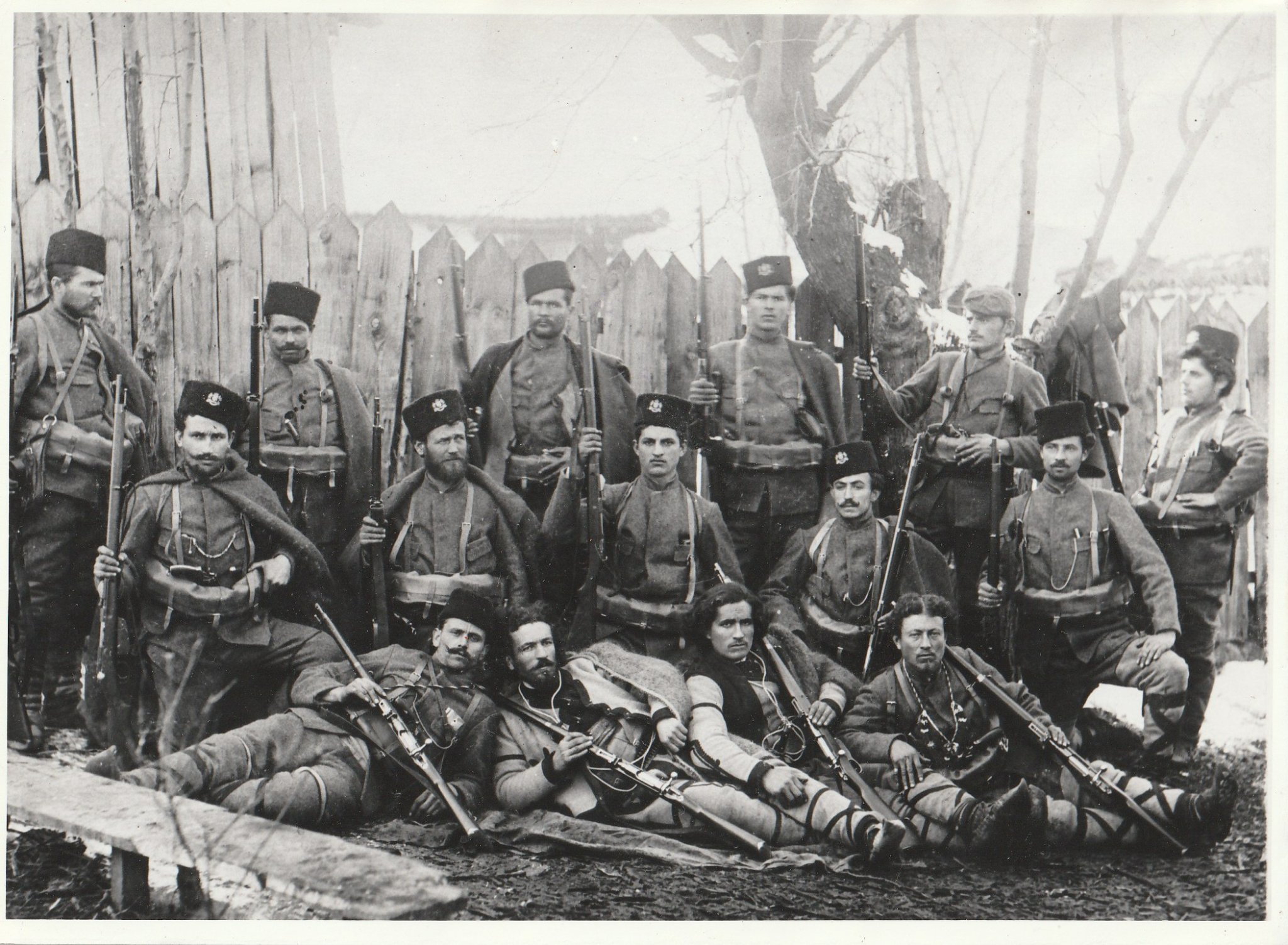 Cheta of IMARO voivoda Stefan Dimitrov in Veles